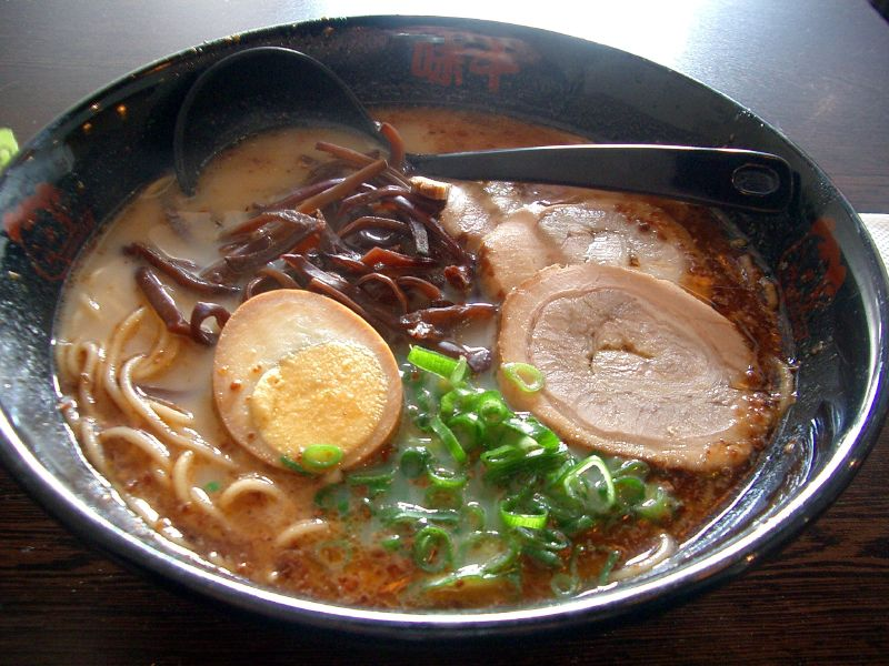 Ajisen Ramen, Bourke Street, MelbourneIt looks about right, but it is no where near as nice as the ramen in Japan, even thought Ajisen is a Japanese chain.Substituting black fungi 黑木耳 for preserved bamboo shoots 笋干 gives a nice crunch, but the flavour can't compare to the briny bamboo.Ajisen] Melbourne.Fresh salmon, nicely grilled. Not bad for AUD14.